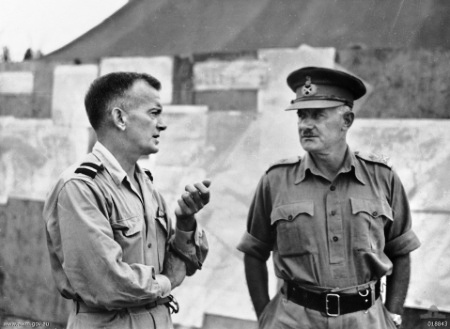 AWM Caption: 1945. Air Commodore Frederick R. W. Scherger and Major General E. J. Milford, General Officer Commanding of the 7th Division (wearing cap) discuss the future work of the RAAF. An RAAF construction squadron has landed and will be used to lengthen captured airstrips.